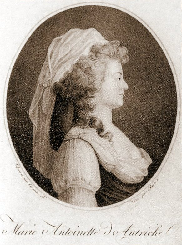 Portrait of Marie Antoinette à la paysan